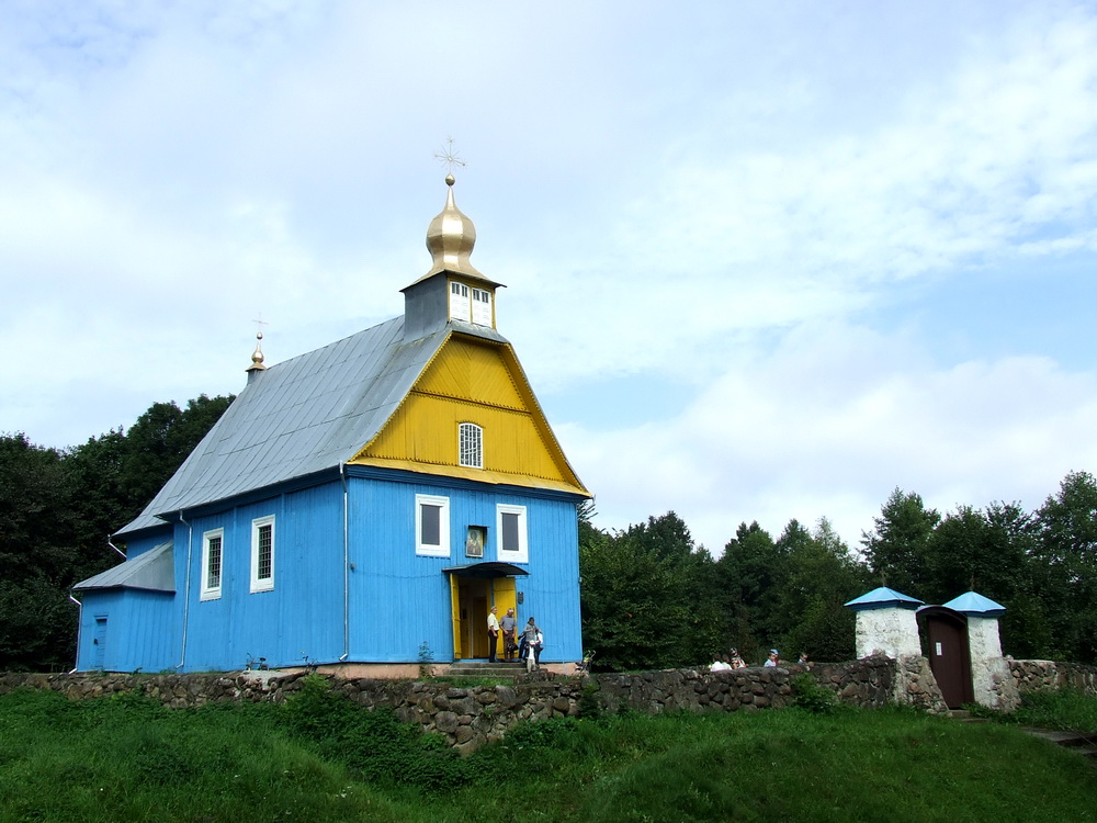 Orthodox church of St. Nicholas (Latyhal, Belarus).